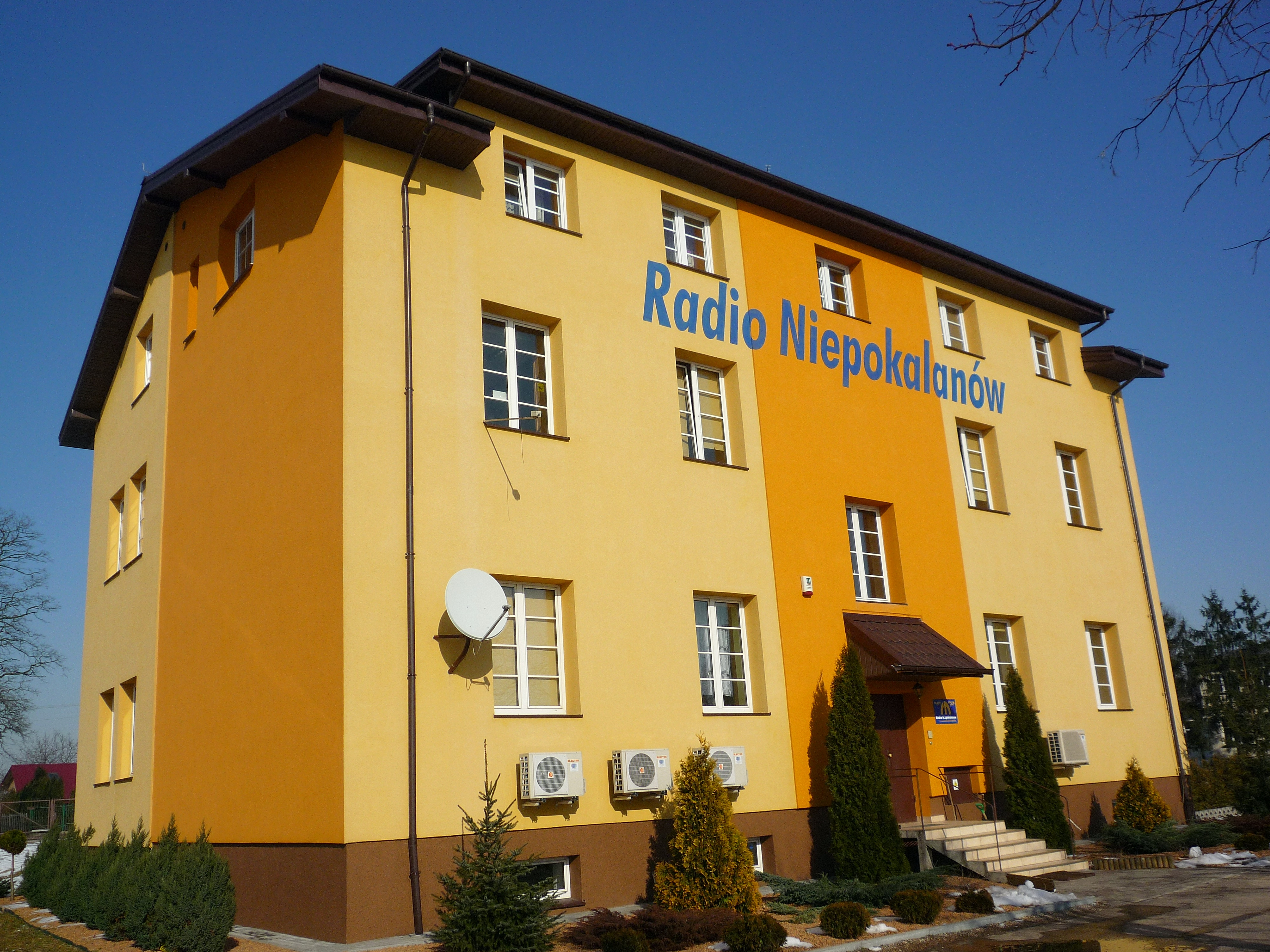 Building of Radio Niepokalanów